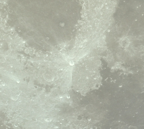 View of the moon centered on Proclus, showing the extent of its rays of ejecta.